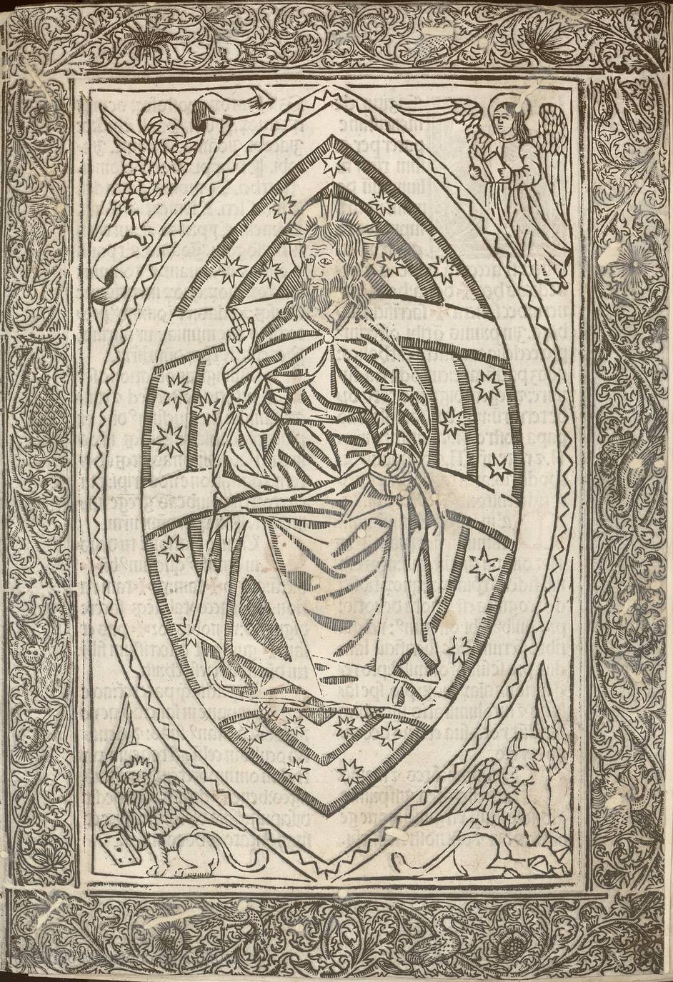 Tarragona (Biblioteca Pública de Tarragona), Catalonia: Incunable Missale Tarraconense